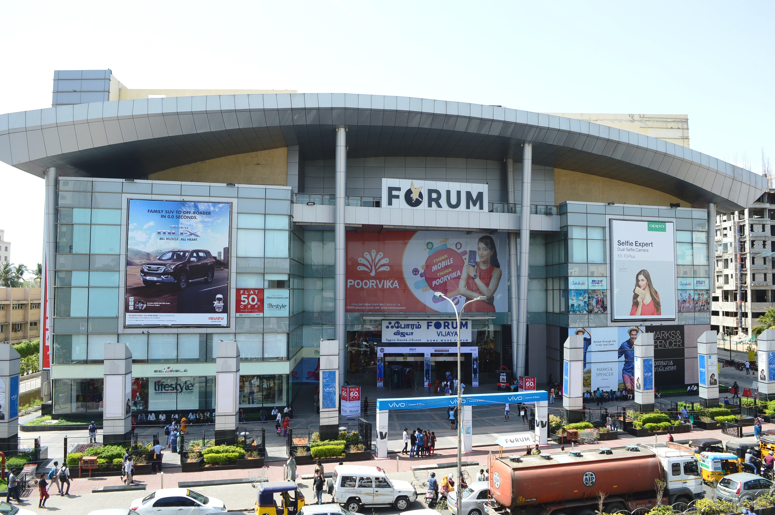 Forum Vijaya Arcot Road Entry